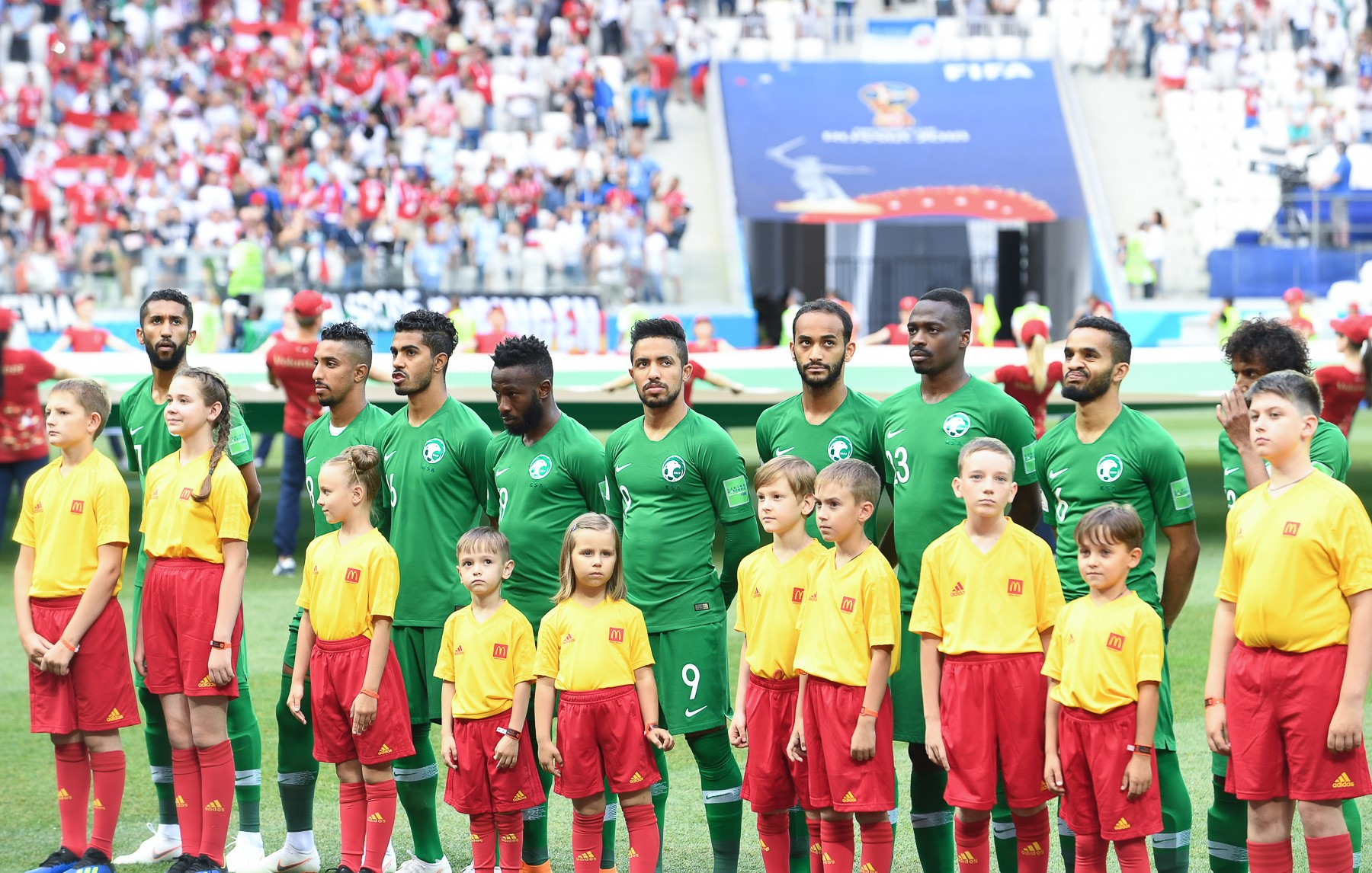 Saudi Arabia national football team